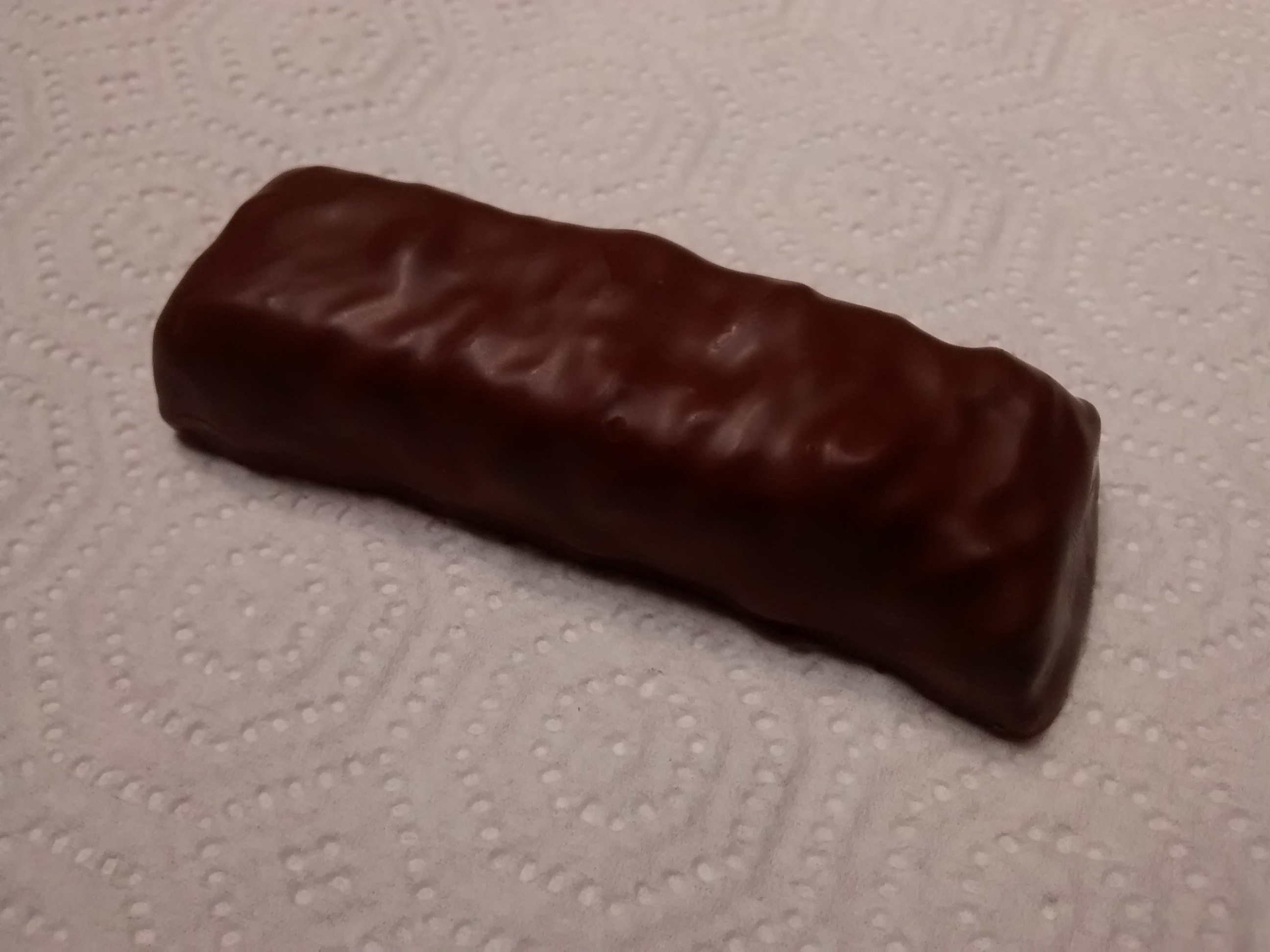 LUNA Protein Mint Chocolate Chip bar made by Clif Bar & Company